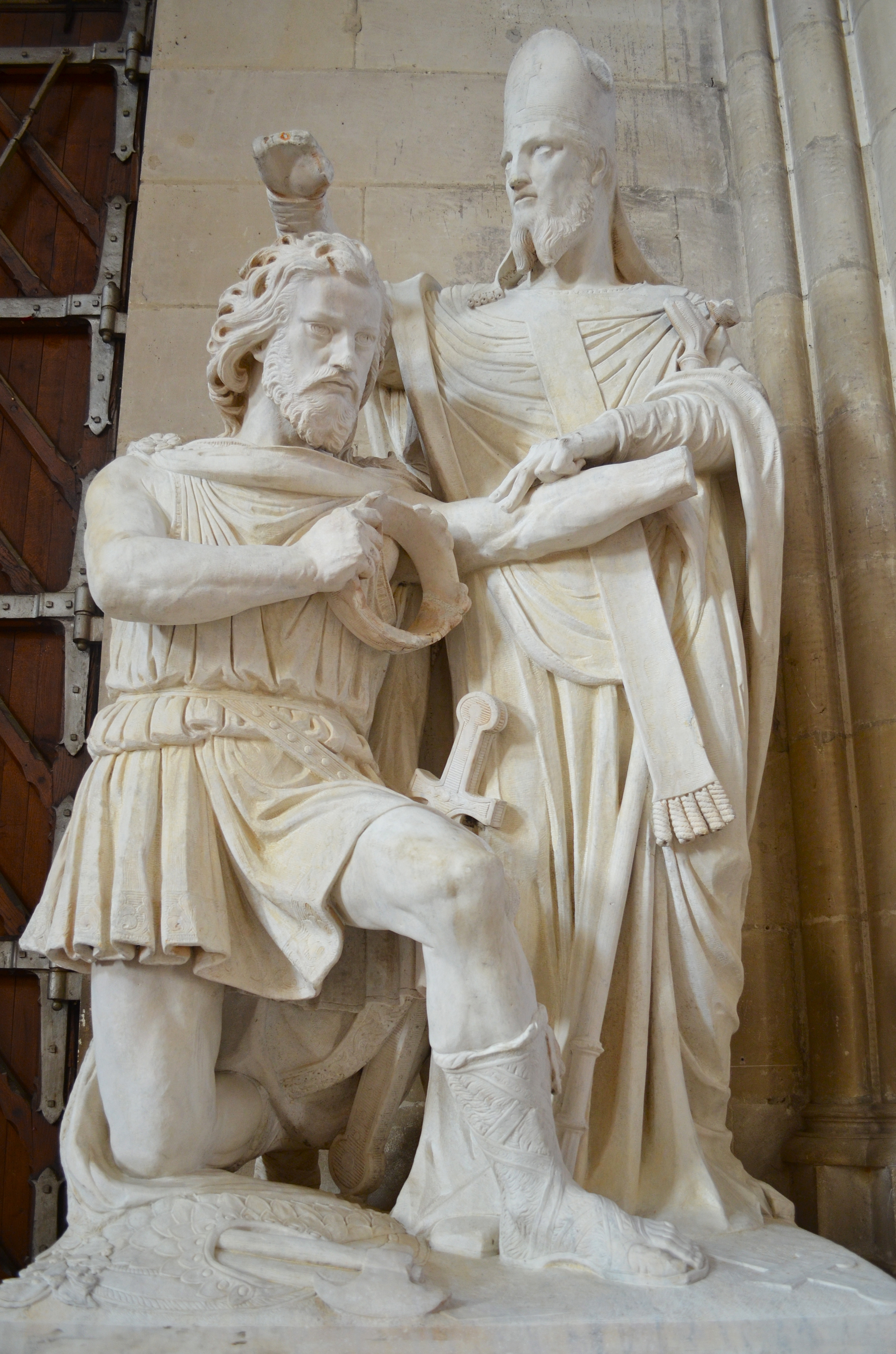 Clovis baptised by Saint Remi - Scuplture by Etienne-Hippolyte Maindron (1865), exhibited in Notre-Dame church, Cholet, France